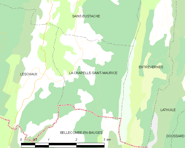 Map of French municipality La Chapelle-Saint-Maurice